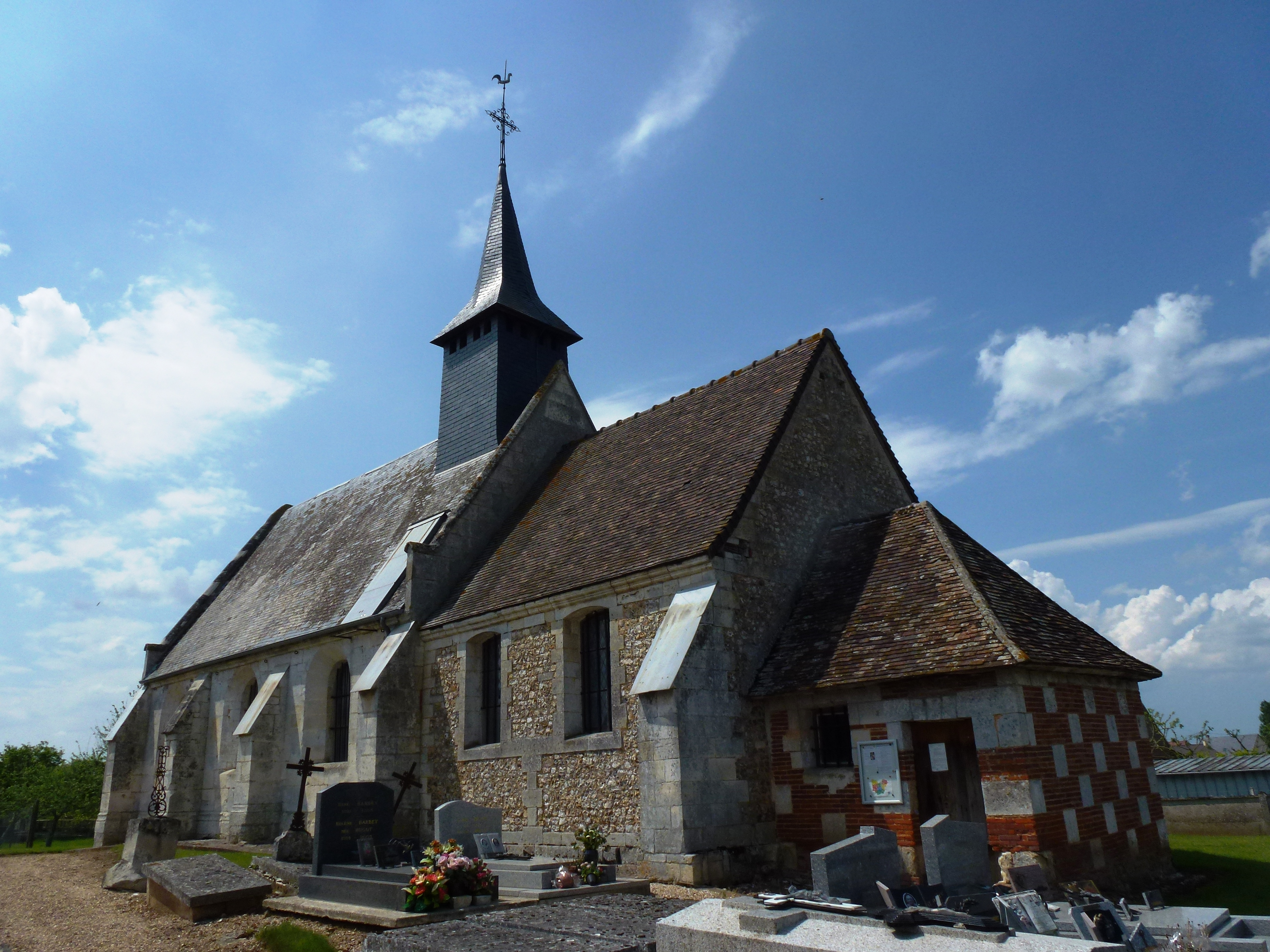 La Cambe (Thibouville, Eure, Fr) église Saint-Julien